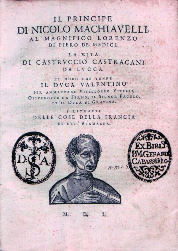 Cover page of 1550 edition of Machiavelli's Il Principe and La Vita di Castruccio Castracani da Lucca. omslagsbild.